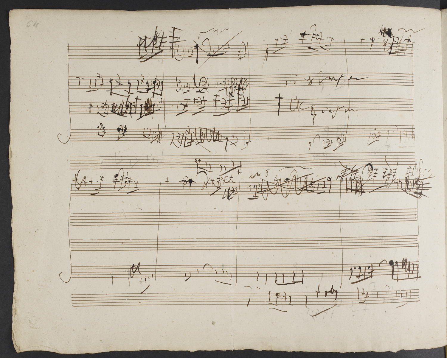 Sketches for the String Quartet Op. 131. In the composer's hand.